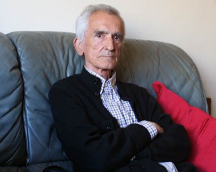 Carlos Oroza by acidia